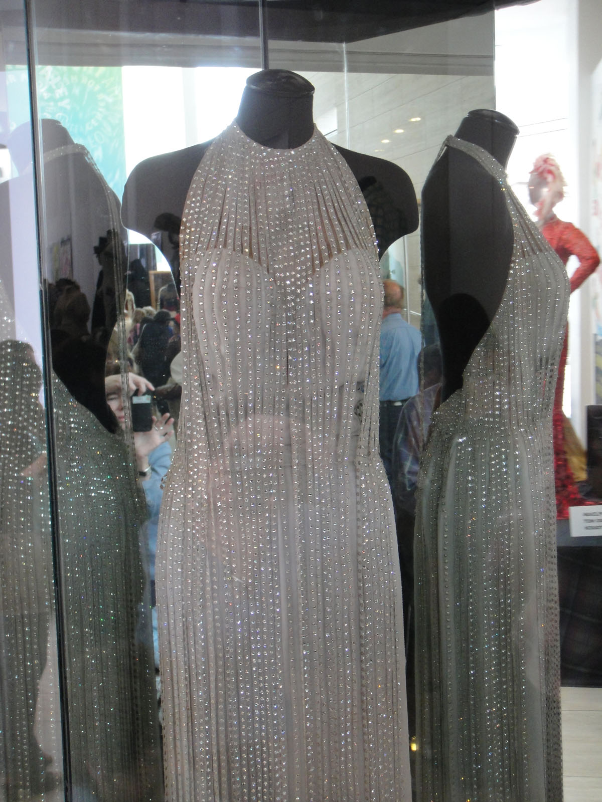 Kim Novak show dress from the film Jeanne Eagels (1957) at the Debbie Reynolds Auction Breaks Up Historic Hollywood Collection (The Paley Center for Media in Beverly Hills, Los Angeles, CA, USA).